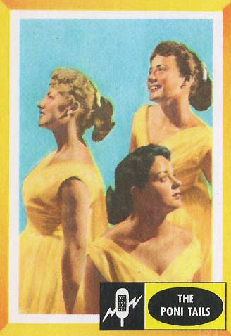 Trading card photo of The Poni-Tails. In 1960, Fleer gum cards issued a series of recording stars. They were part of their recording stars cards.